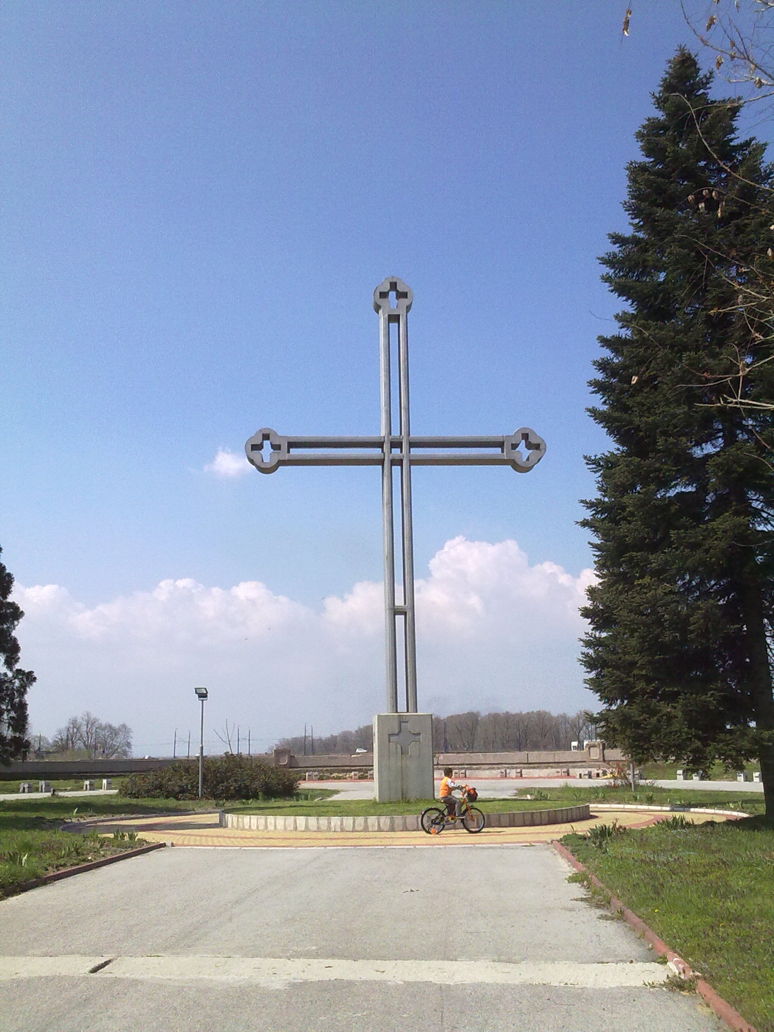 Park Svoboda, Pazardzhik, Bulgaria.